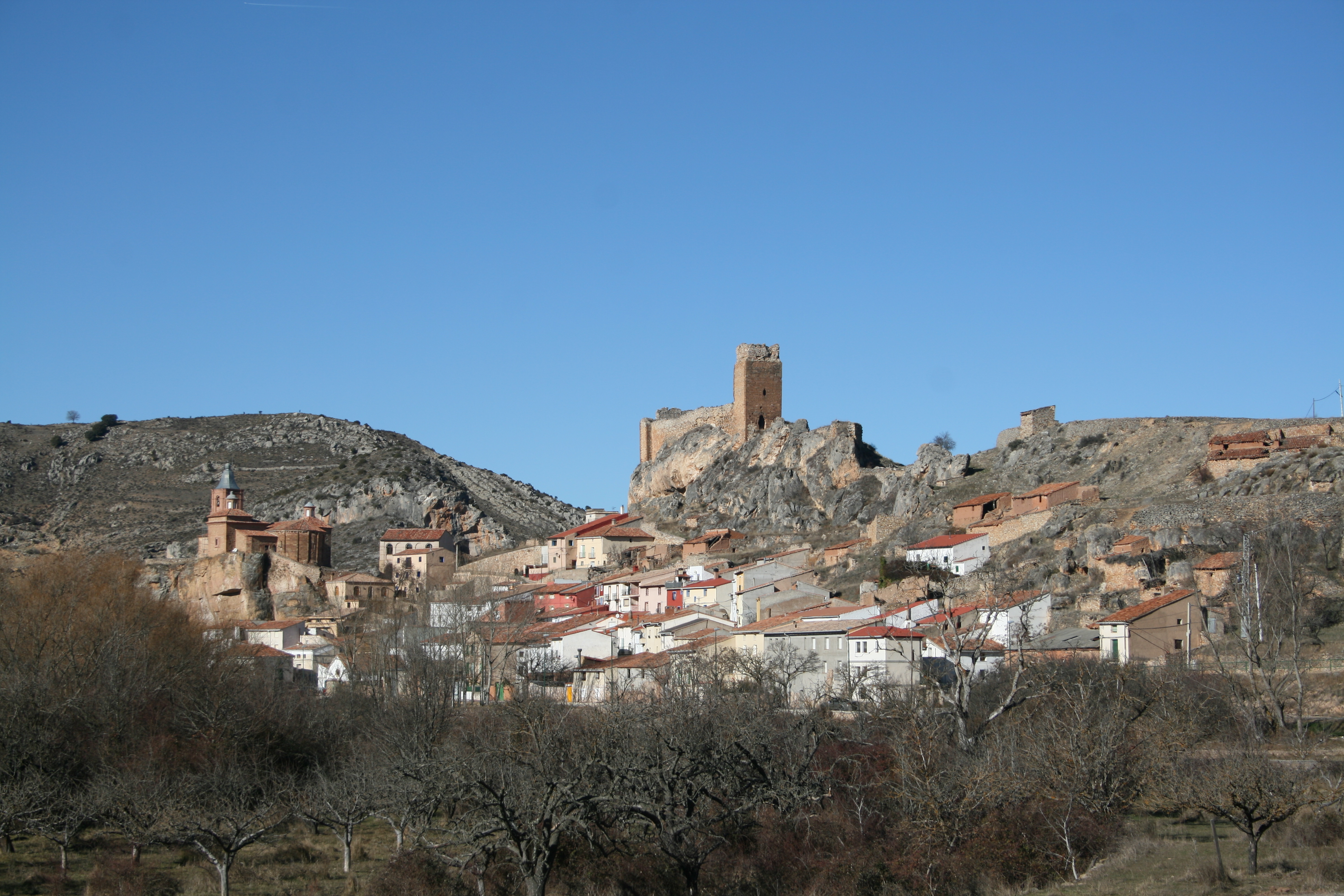 View of Bijuesca, Spain